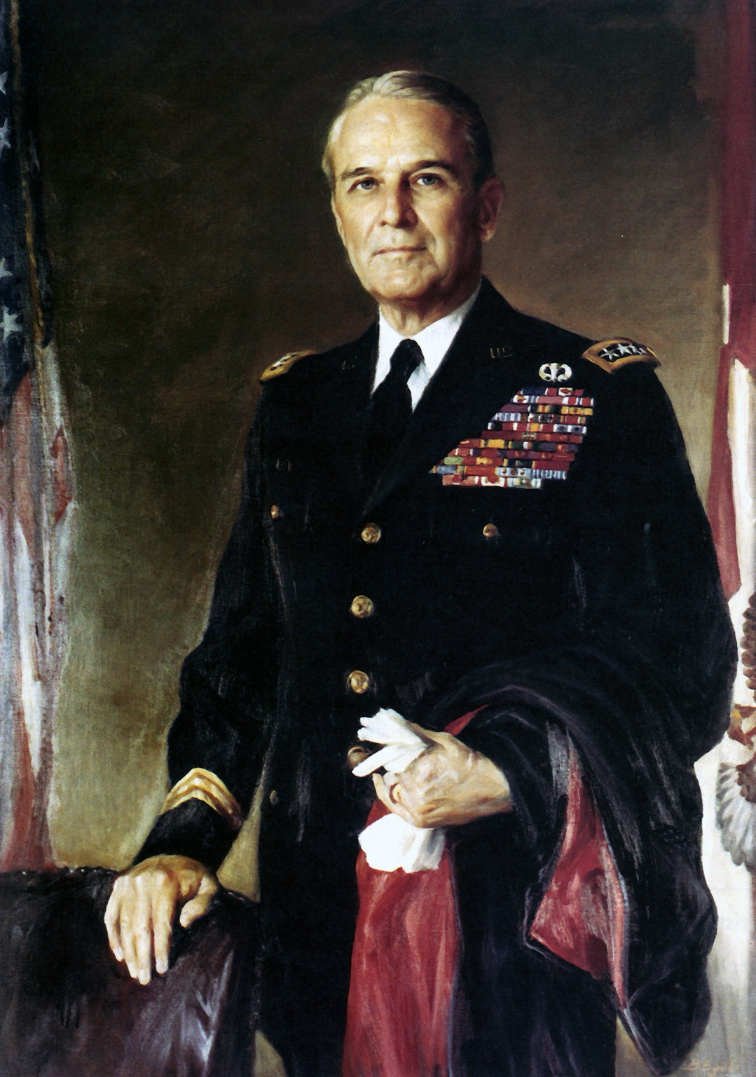 general Maxwell D. Taylor, Chairman of the Joint Chiefs of Staff